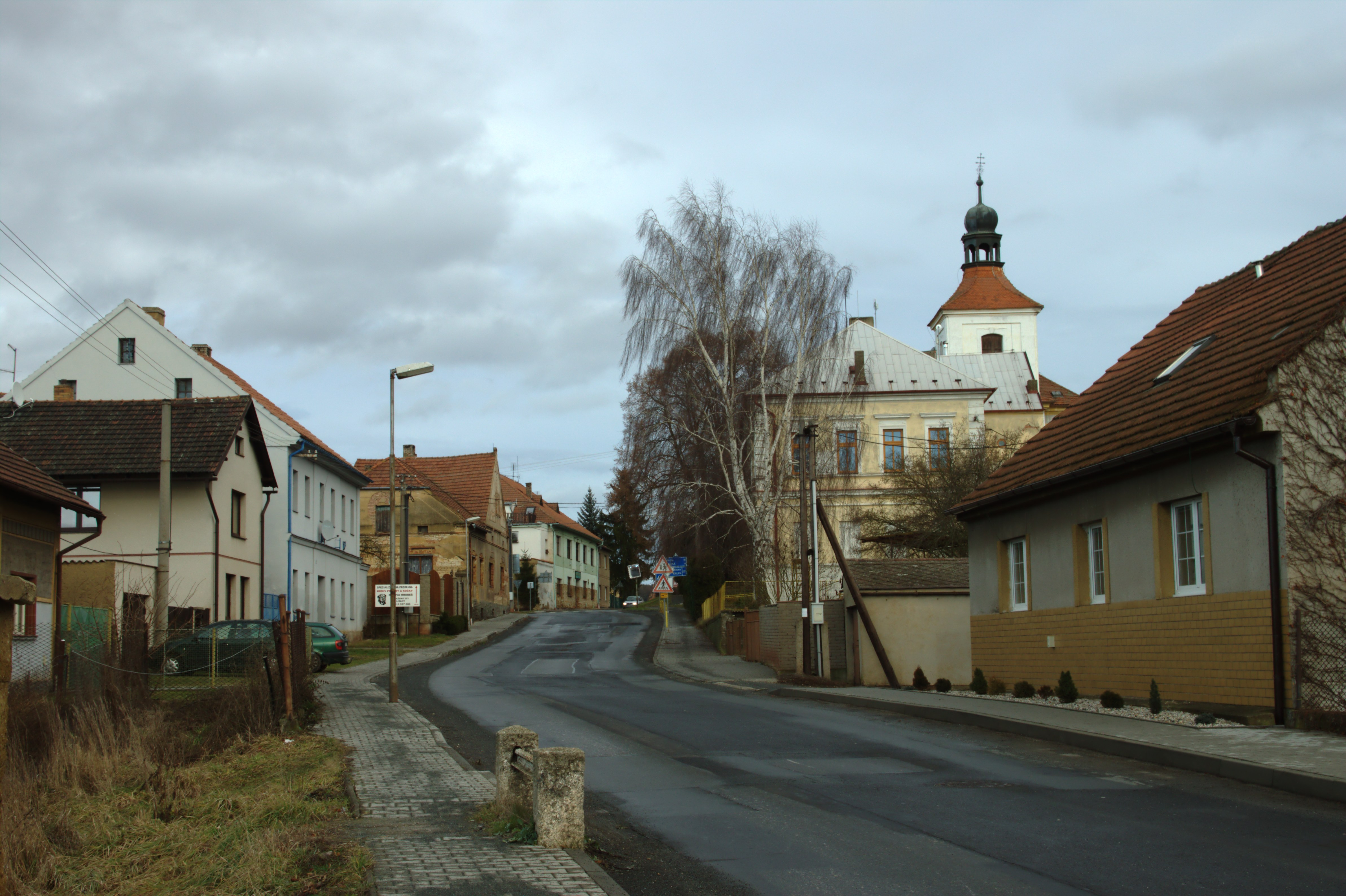 Main road in Lišany, Central Bohemian Region, CZ